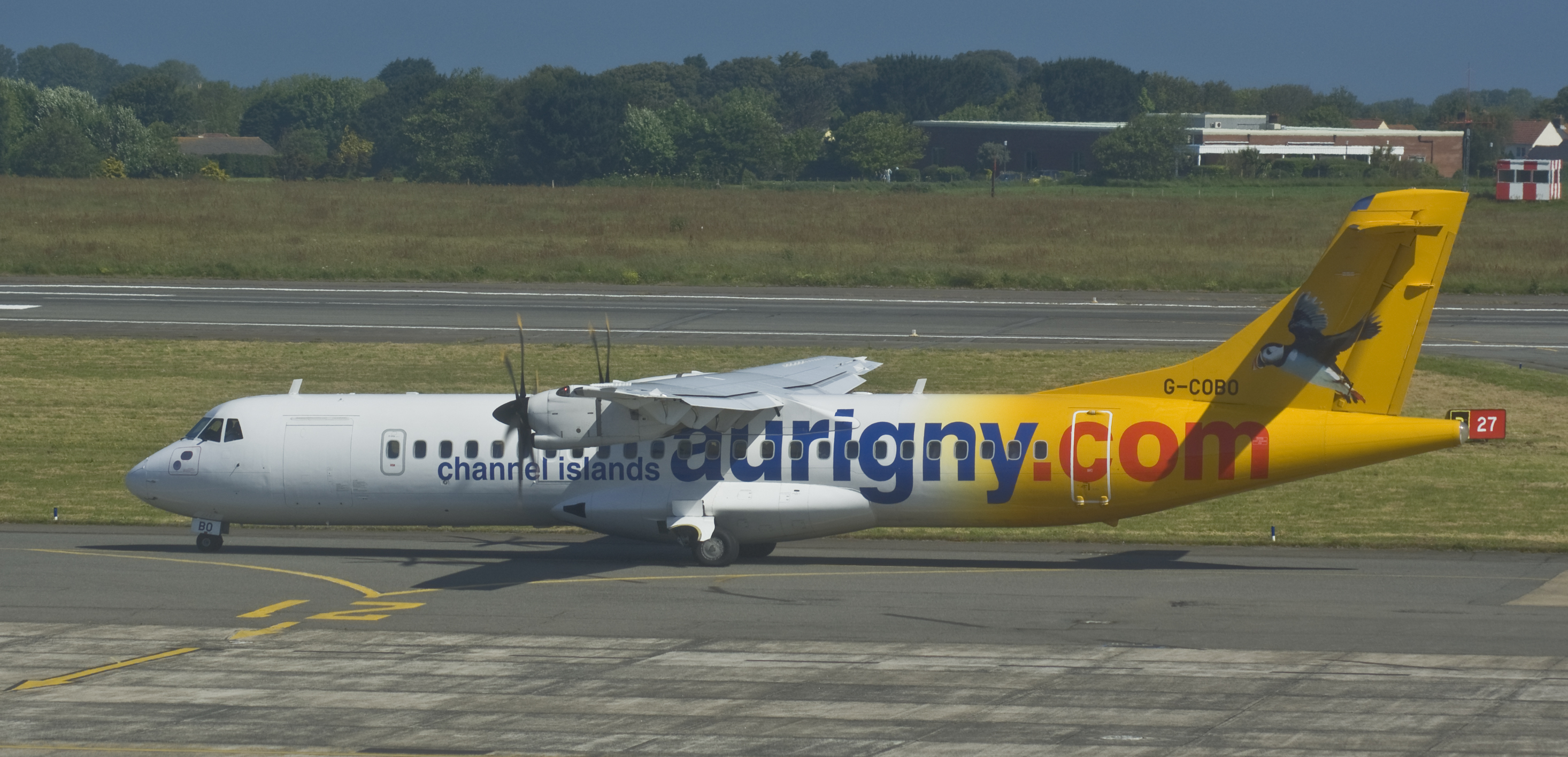 G-COBO taxiing in Guernsey Airport